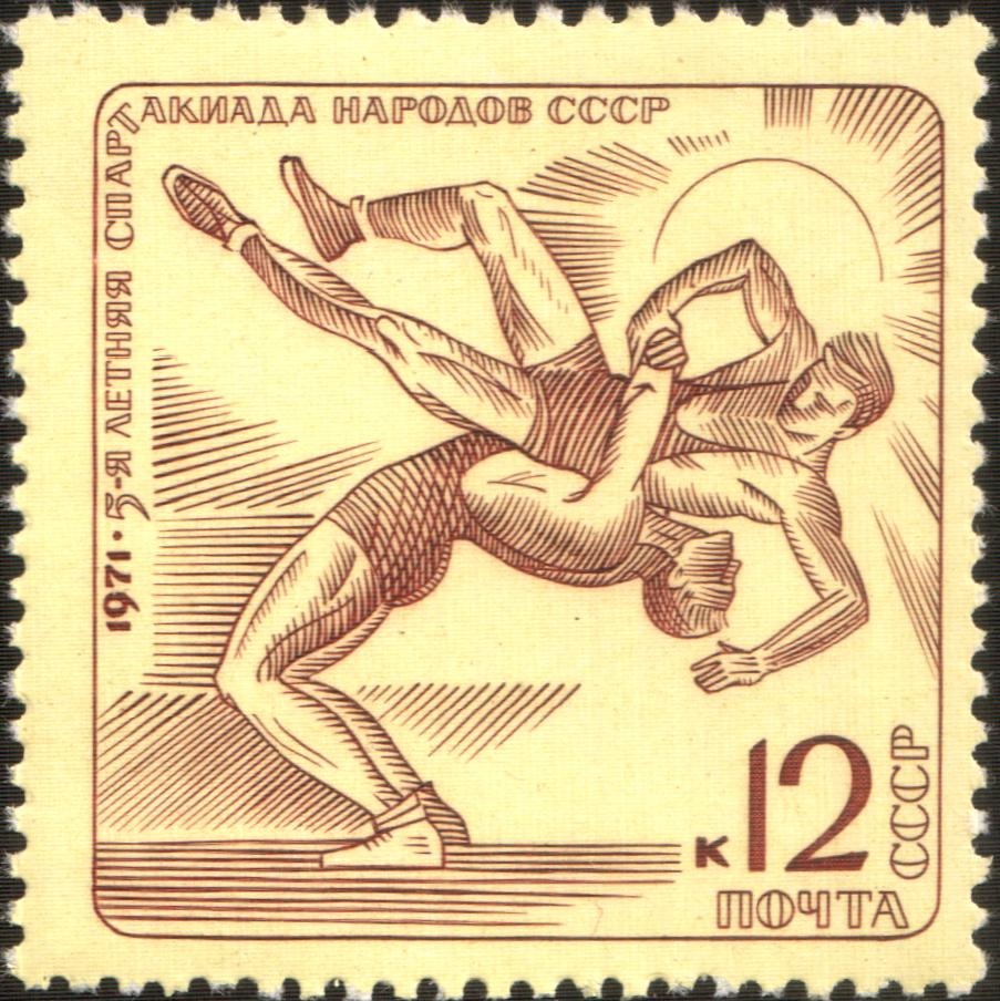 USSR stampː Greco-Roman wrestling. Seriesː 5th Summer Spartakiad of the Peoples of the USSR